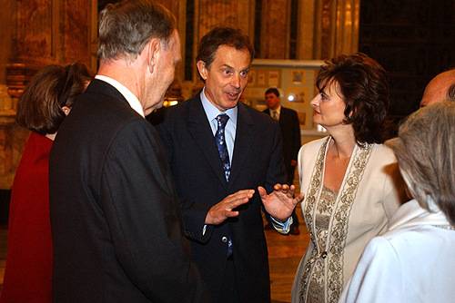 ST ISAAC\'S CATHEDRAL, ST PETERSBURG. Canadian Prime Minister Jean Chretien and his wife, Aline (left), with British Prime Minister Tony Blair (centre) and his wife, Cherie (far right).